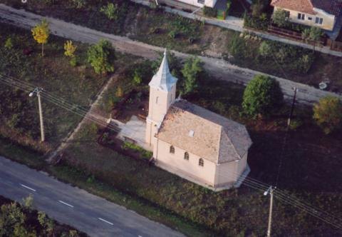 Reformed Church in Csépa, Hungary, aerial photography